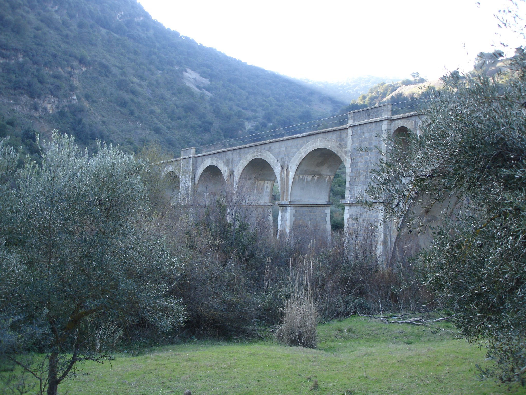 Viaduct of the former rail trail Vía Verde de la Sierra (Cádiz province part)